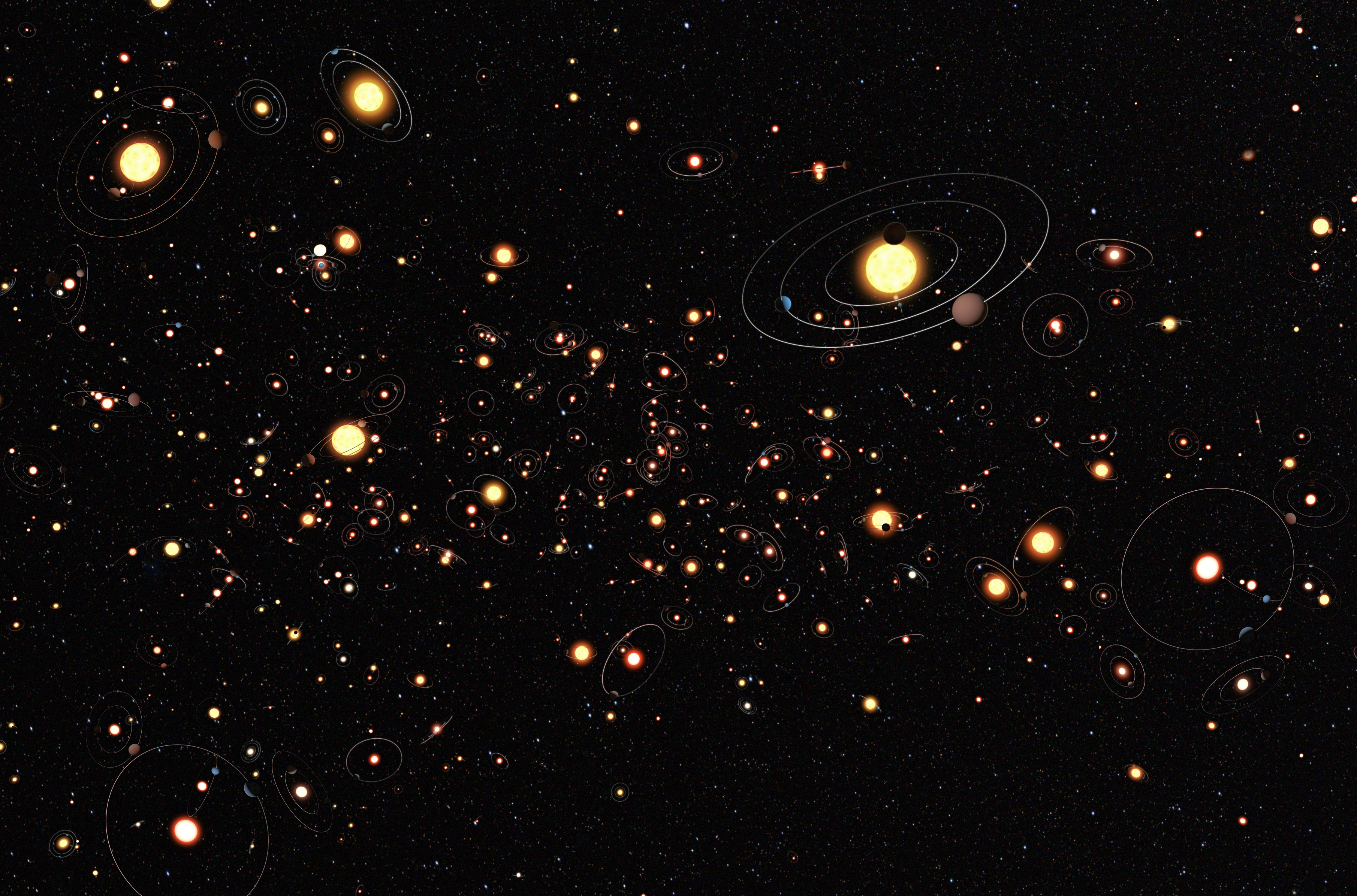 This artists’s cartoon view gives an impression of how common planets are around the stars in the Milky Way. The planets, their orbits and their host stars are all vastly magnified compared to their real separations. A six-year search that surveyed millions of stars using the microlensing technique concluded that planets around stars are the rule rather than the exception. The average number of planets per star is greater than one.